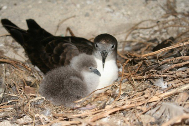 Wedge-tailed Shearwater, Puffinus pacificus with day old chick